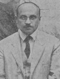 Ilya Rabinovich (chess player)